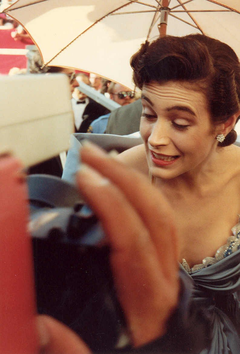 Sean Young on the red carpet at the 60th Annual Academy Awards, 4/11/88 - Permission granted to copy, publish, broadcast or post but please credit "photo by Alan Light" if you can